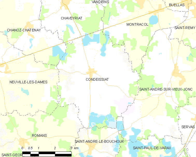 Map of French commune: Condeissiat Map commune FR insee code 01113.png